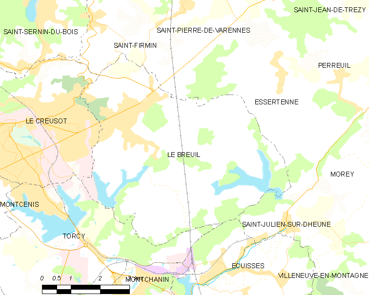 Map of French municipality